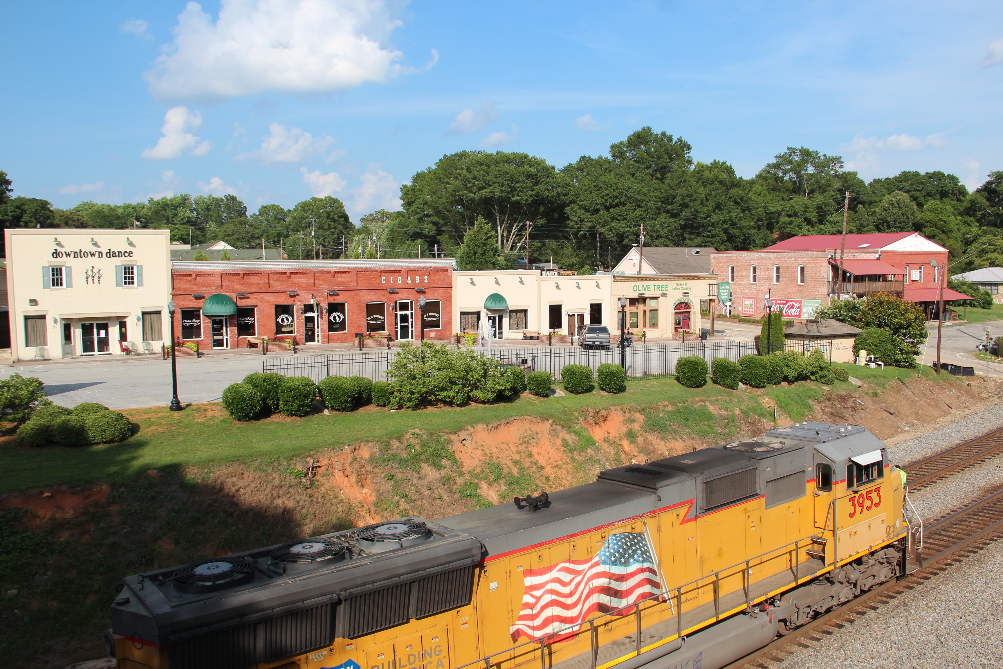 Downtown Hiram Georgia, viewed from a bridge